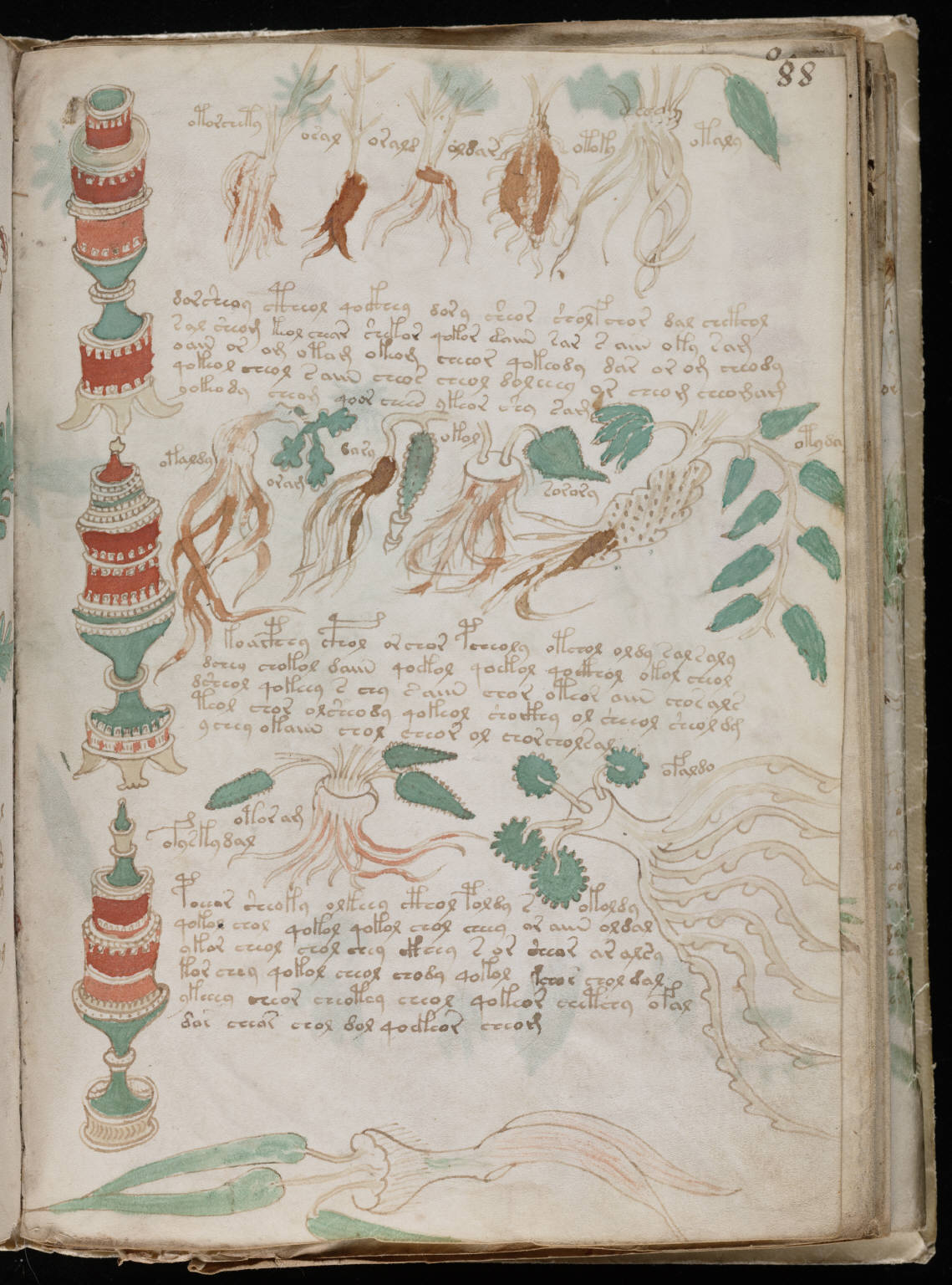 A page from the mysterious Voynich manuscript, which is undeciphered to this day.